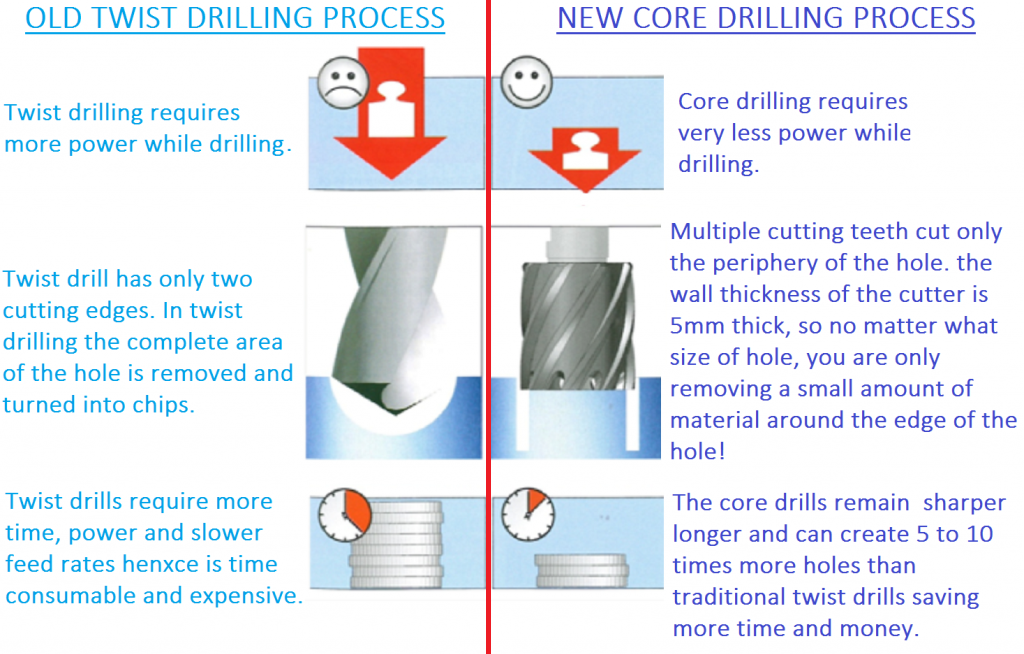 Comparison of Core drill Vs Twist Drills.png